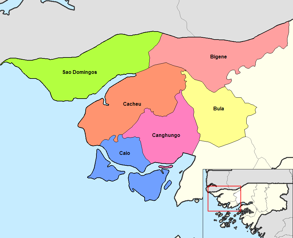 Map of the sectors of Cacheu region of Guinea-Bissau. Created by Rarelibra 14:18, 14 September 2006 (UTC) for public domain use, using MapInfo Professional v8.5 and various mapping resources.